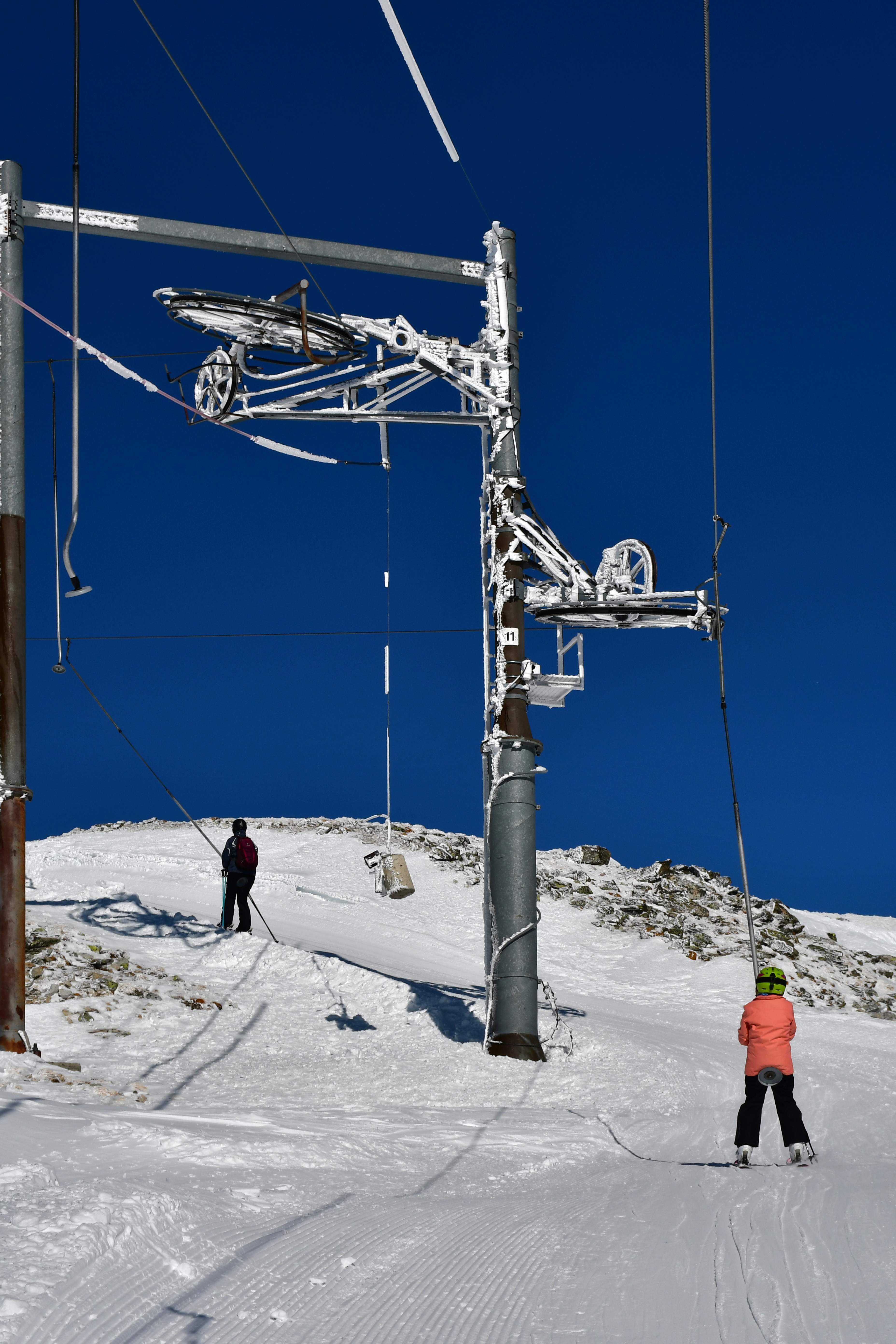 The Bella Tola platter lift, in the Saint-Luc ski resort (canton of Valais, Switzerland).